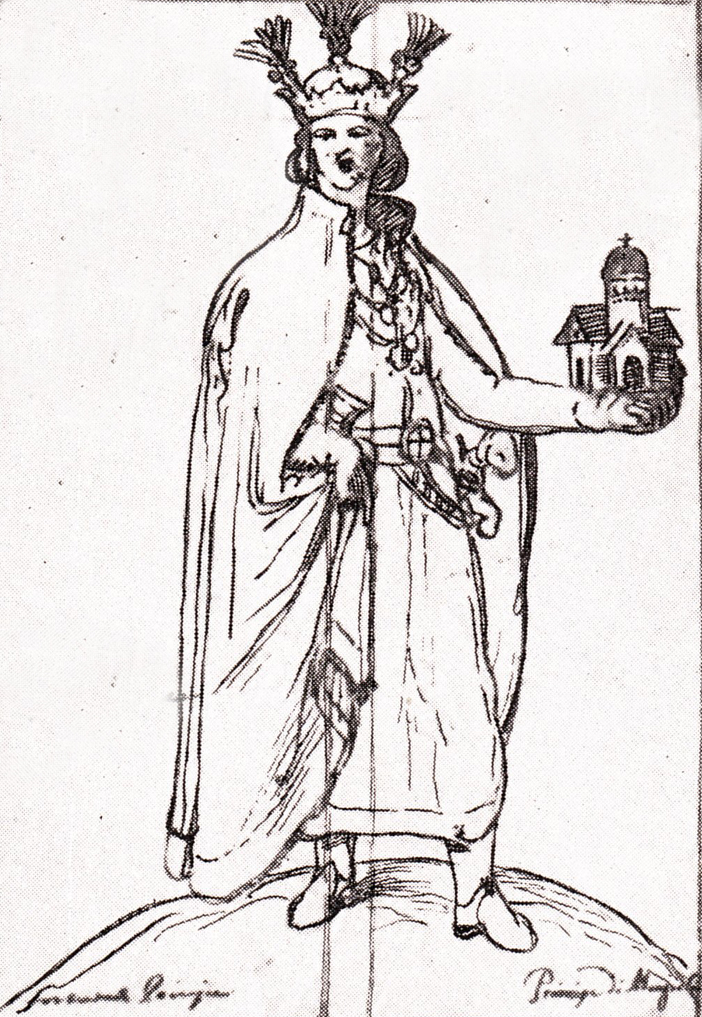 The portrait of Mariam Dadiani, the queen of Kartli